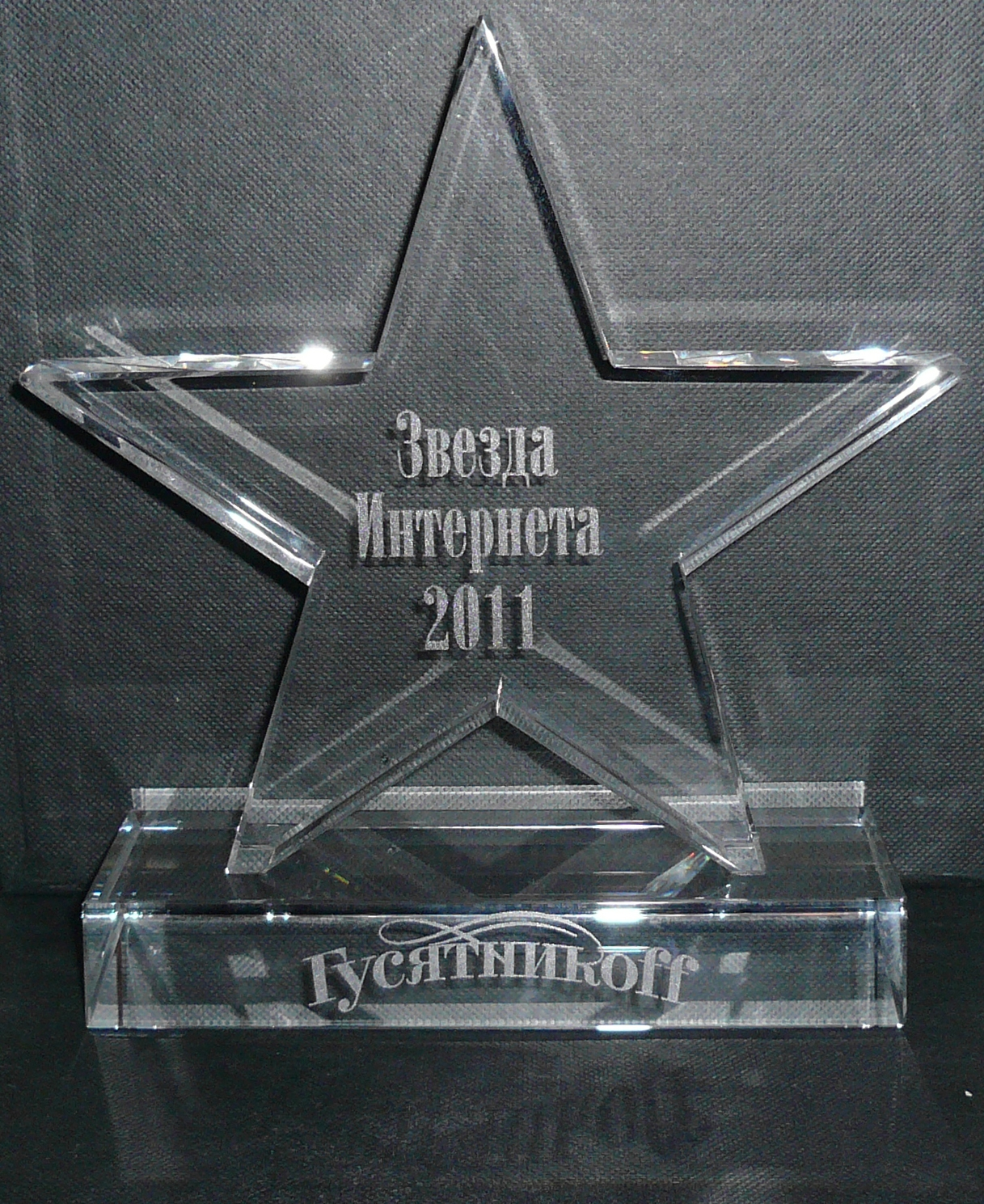 Russian Internet Award "Zvezda Interneta" ("Internet Star")